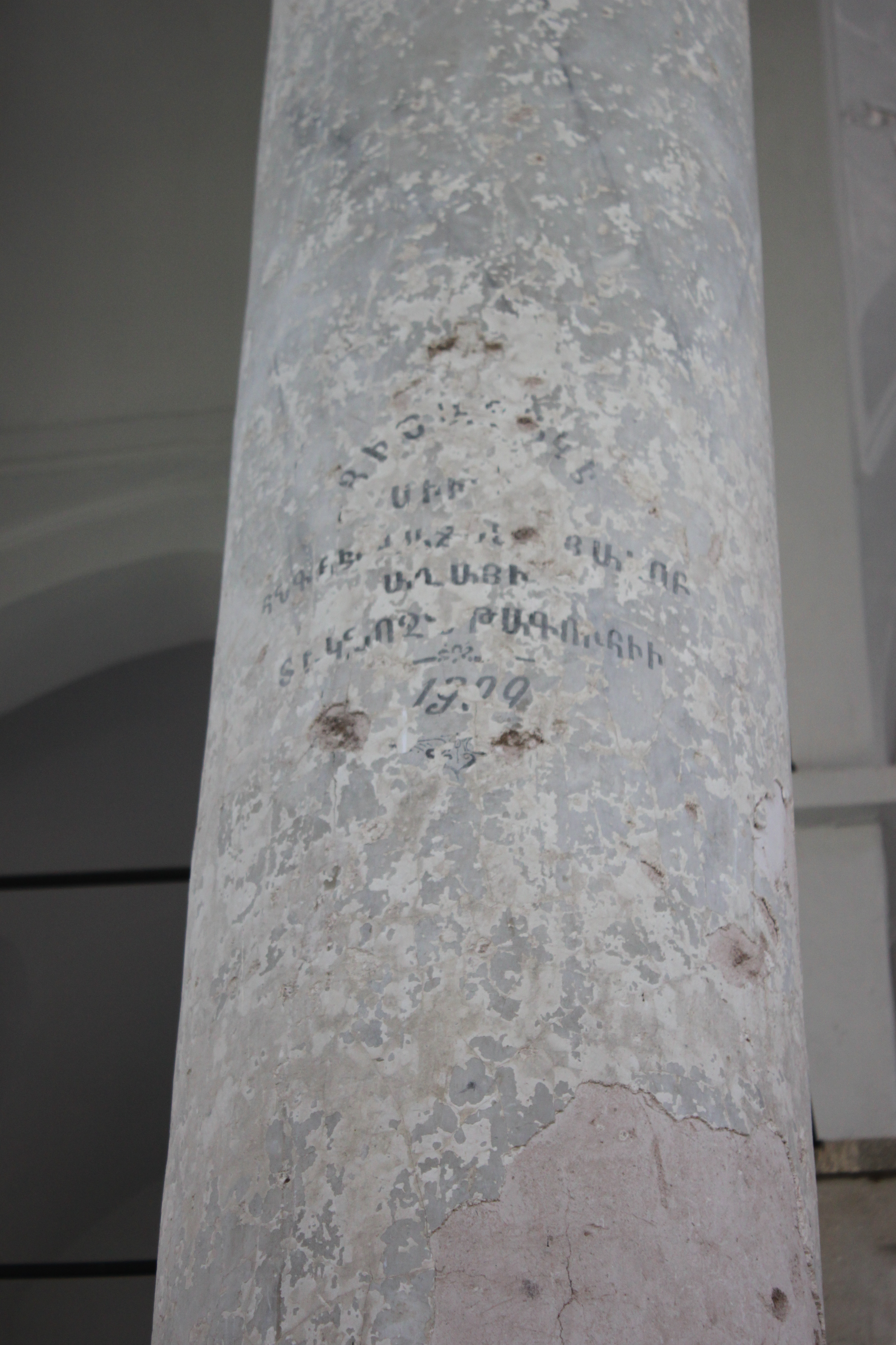 Holy Trinity Church, remains of the paintings; Sivrihisar